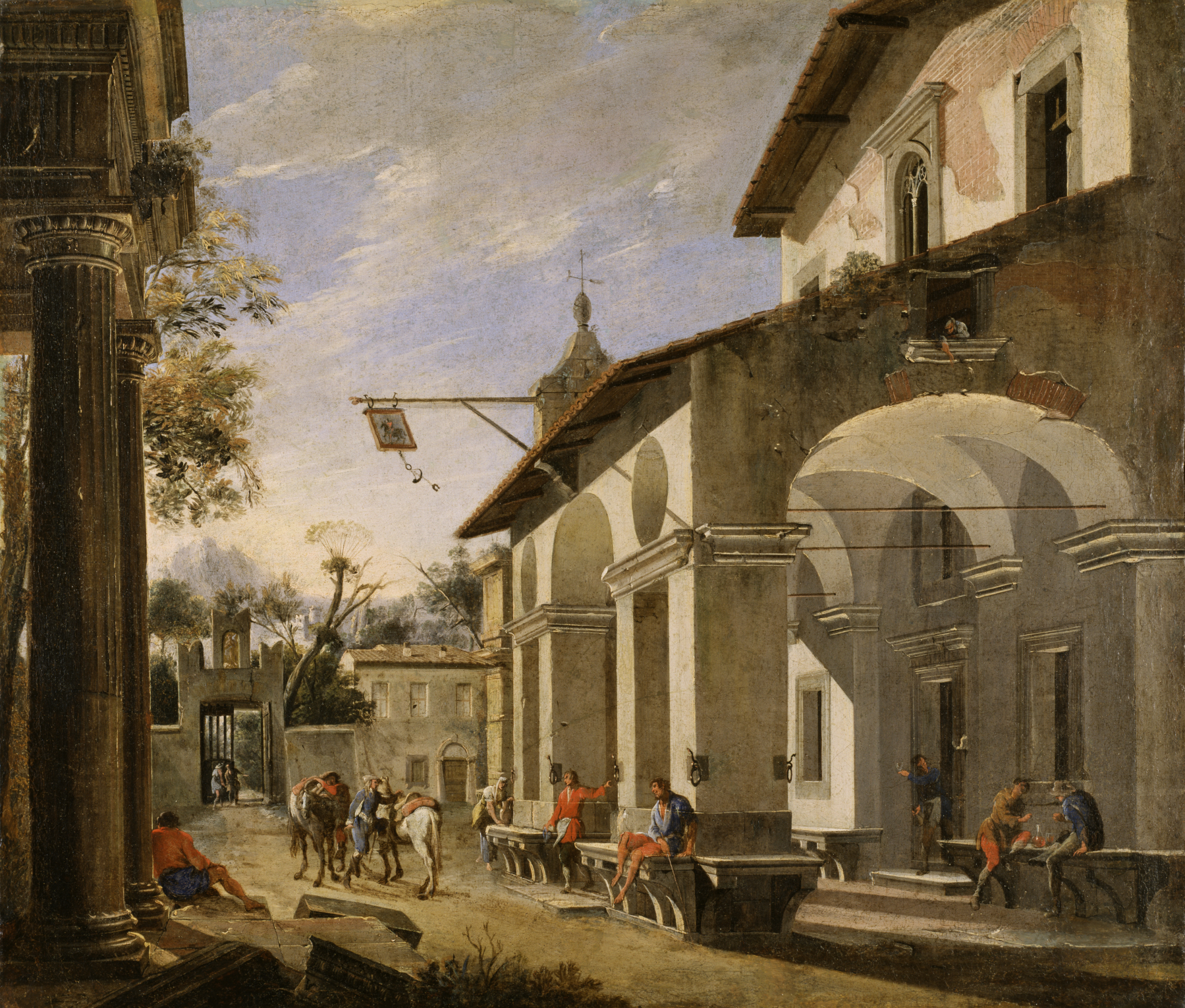 The 17th-century preference for naturalism led to the popularity of scenes of everyday life filled with mundane actions, such as people talking and drinking. Codazzi specialized in painting outdoor settings with villages or ancient ruins but not in painting figures. In this courtyard scene, Domenico Gargiulo (also known as Micco Spadaro), with whom Codazzi collaborated, painted the figures, as that was his specialty. The cracked plaster of the walls of the inn suggests the passage of time, as does the presence of the majestic, ancient Roman portico on the right.